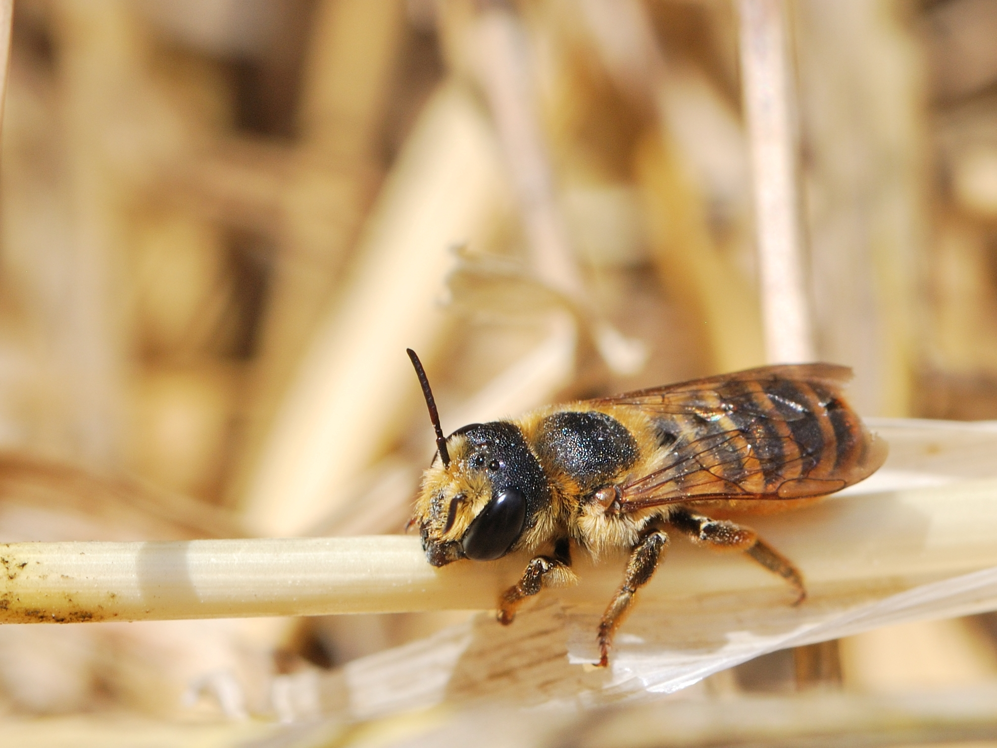 Megachile albisecta (Klug, 1817), female, Mount Carmel, Israel, June 29, 2011. Det. Christophe Praz 2011.